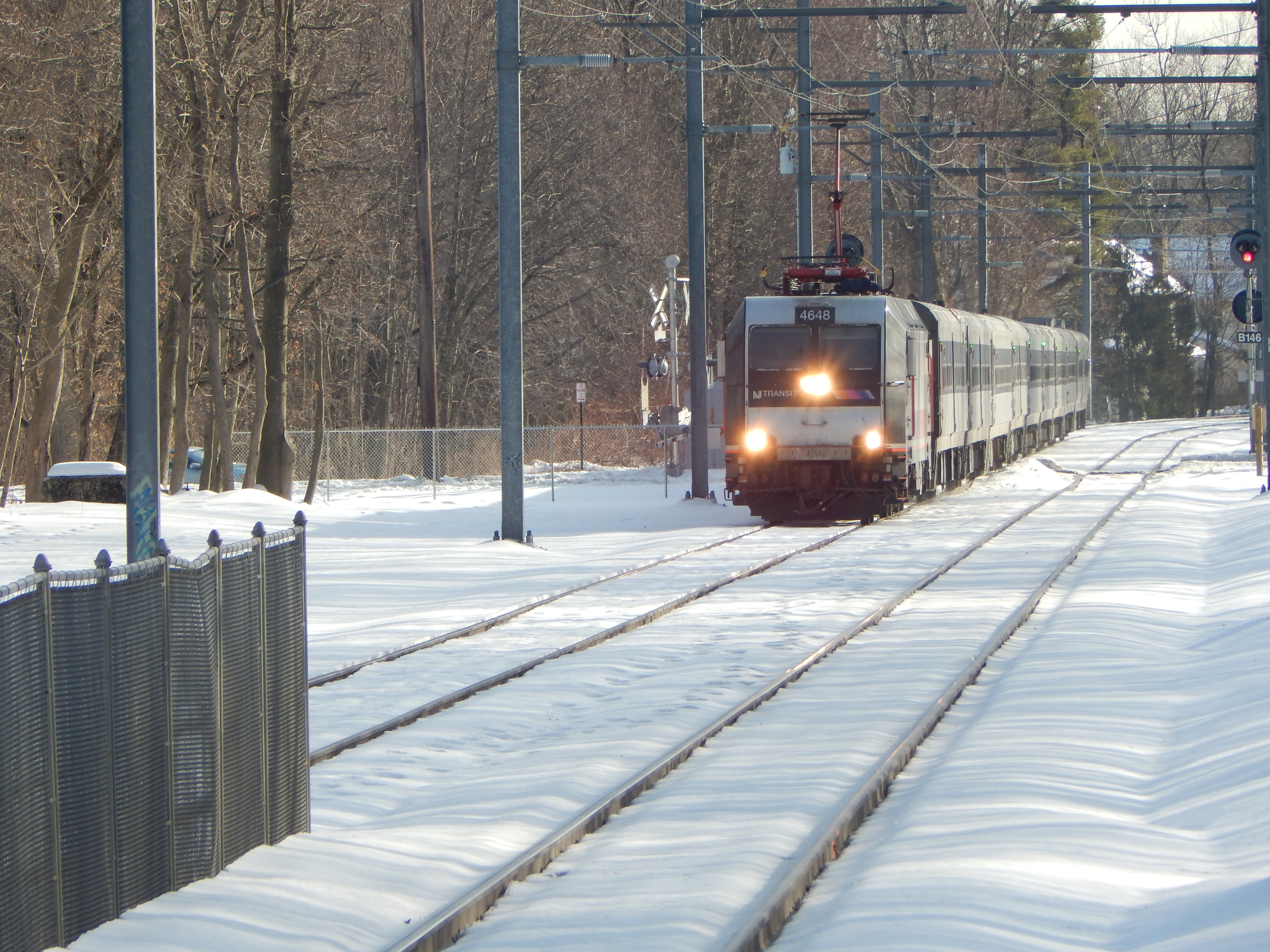 A New Jersey Transit train passes the former Montclair Heights station from the current one.